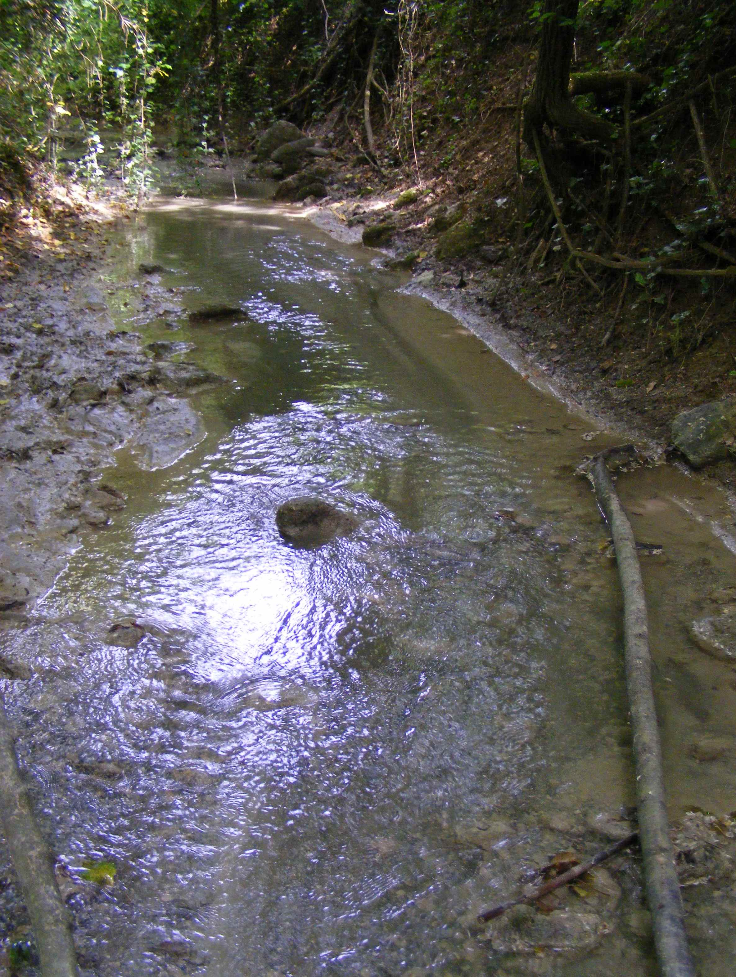 Rio Muscandia nearby Mondonio (hidrigraphic basin of Triversa); AT, Italy